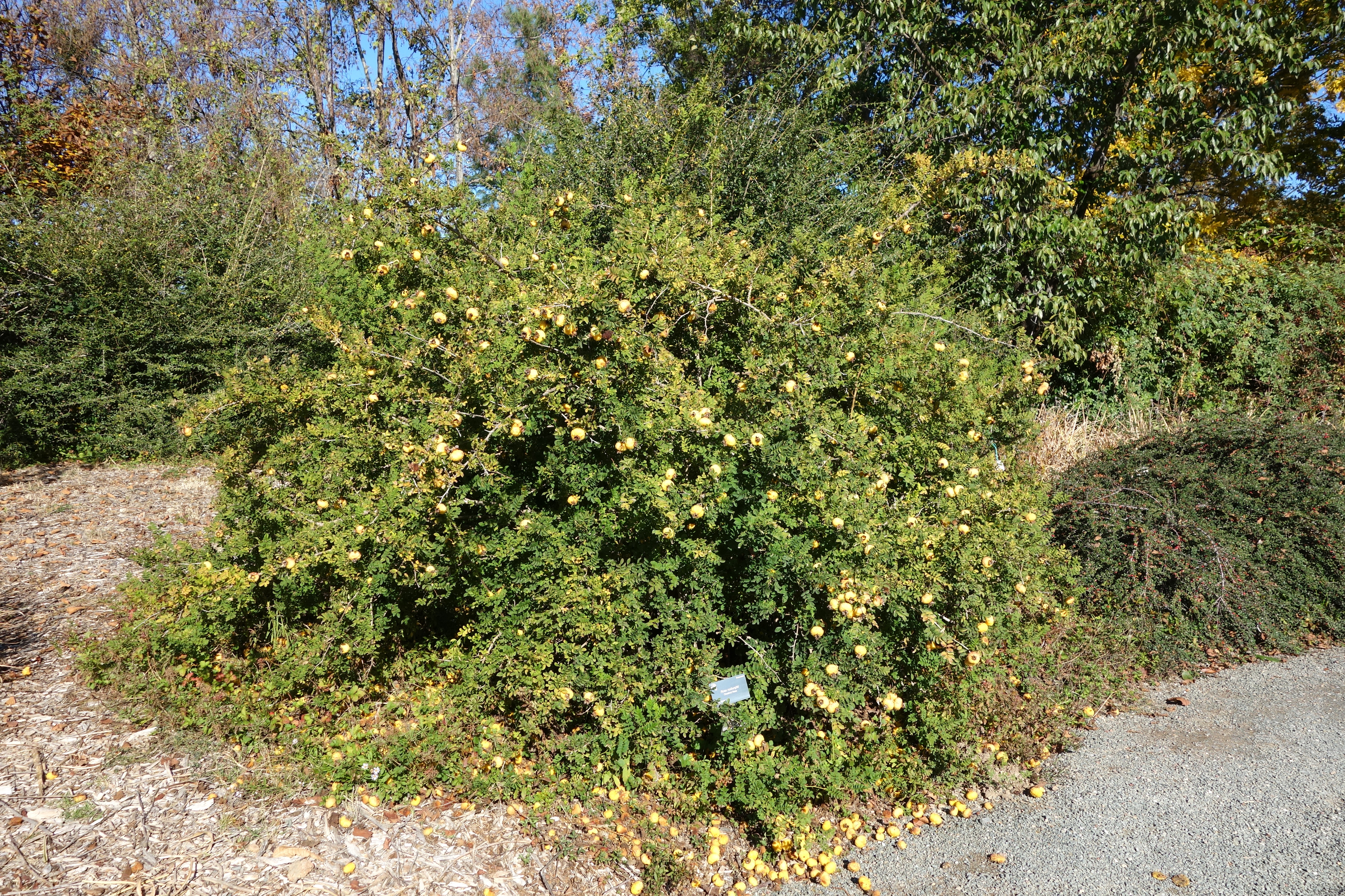 Botanical specimen in Quarryhill Botanical Garden, Glen Ellen, California, USA.